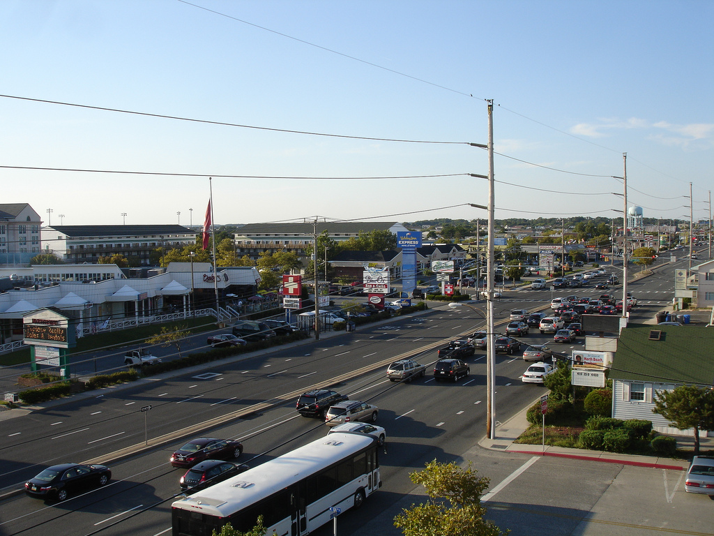 Ocean City, Maryland, USA